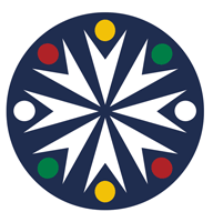 personal